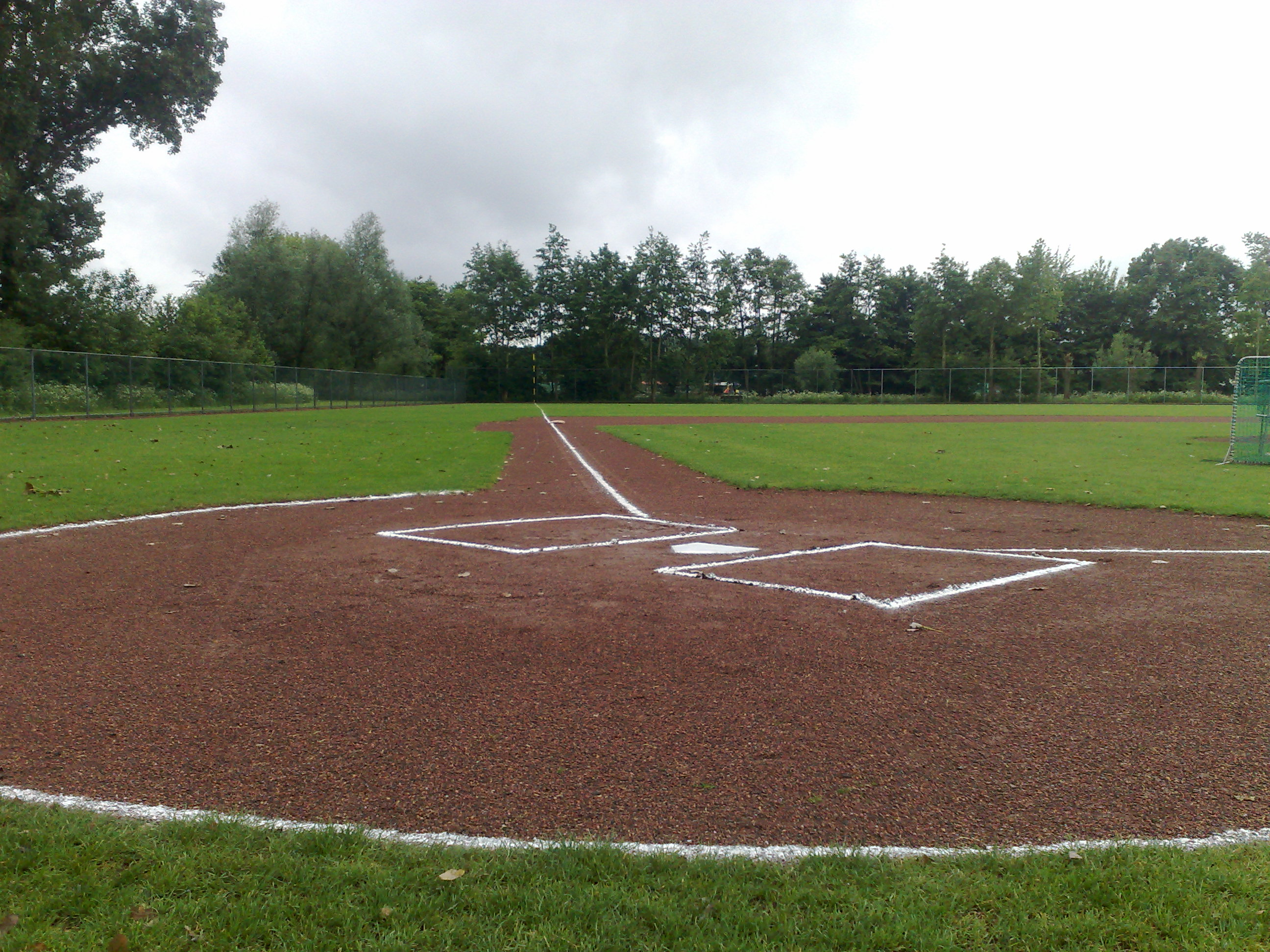 View from home plate from HSC Jeka Breda